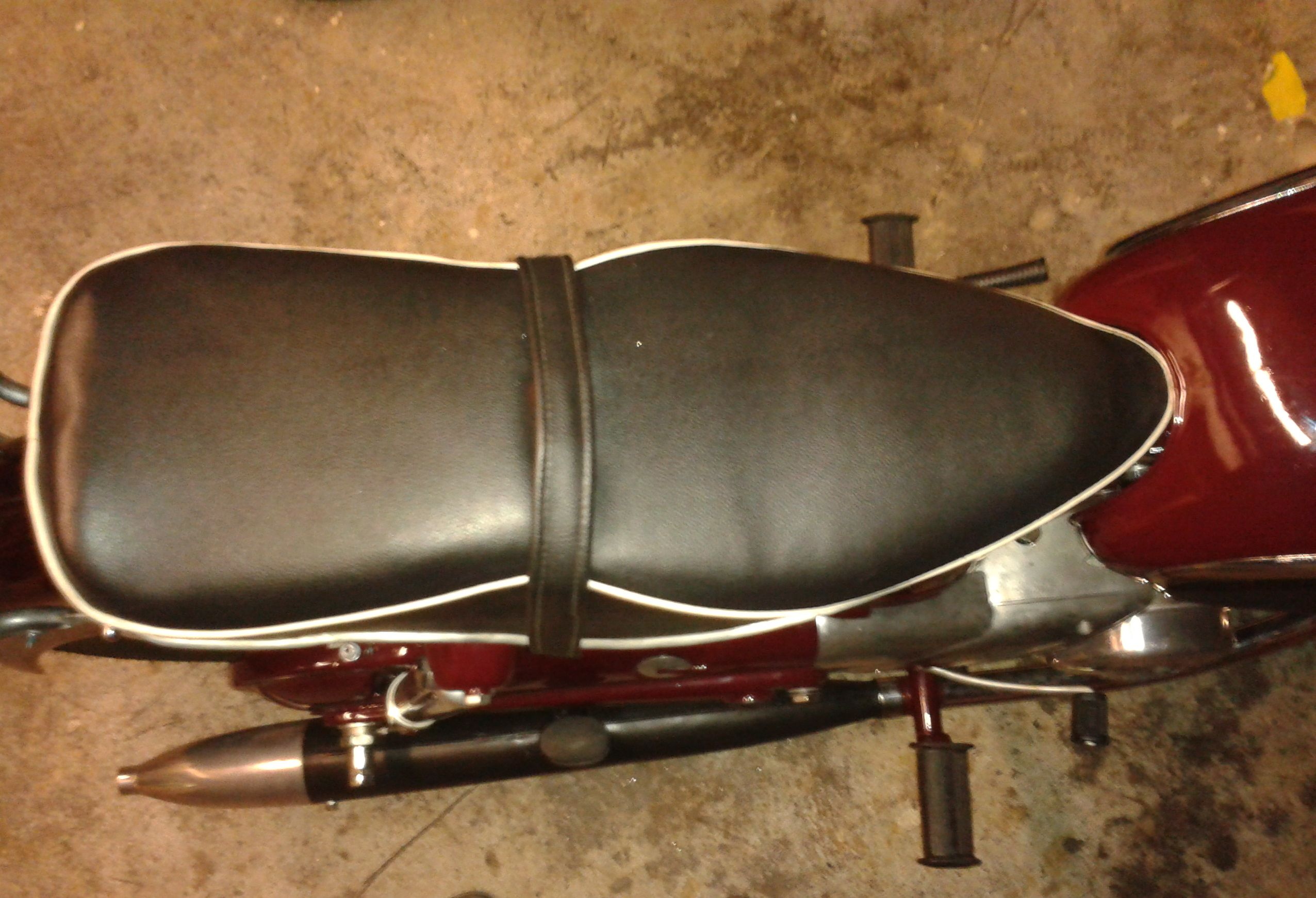 Motorcycle-strap between the seats (Oldtimer, JAWA)